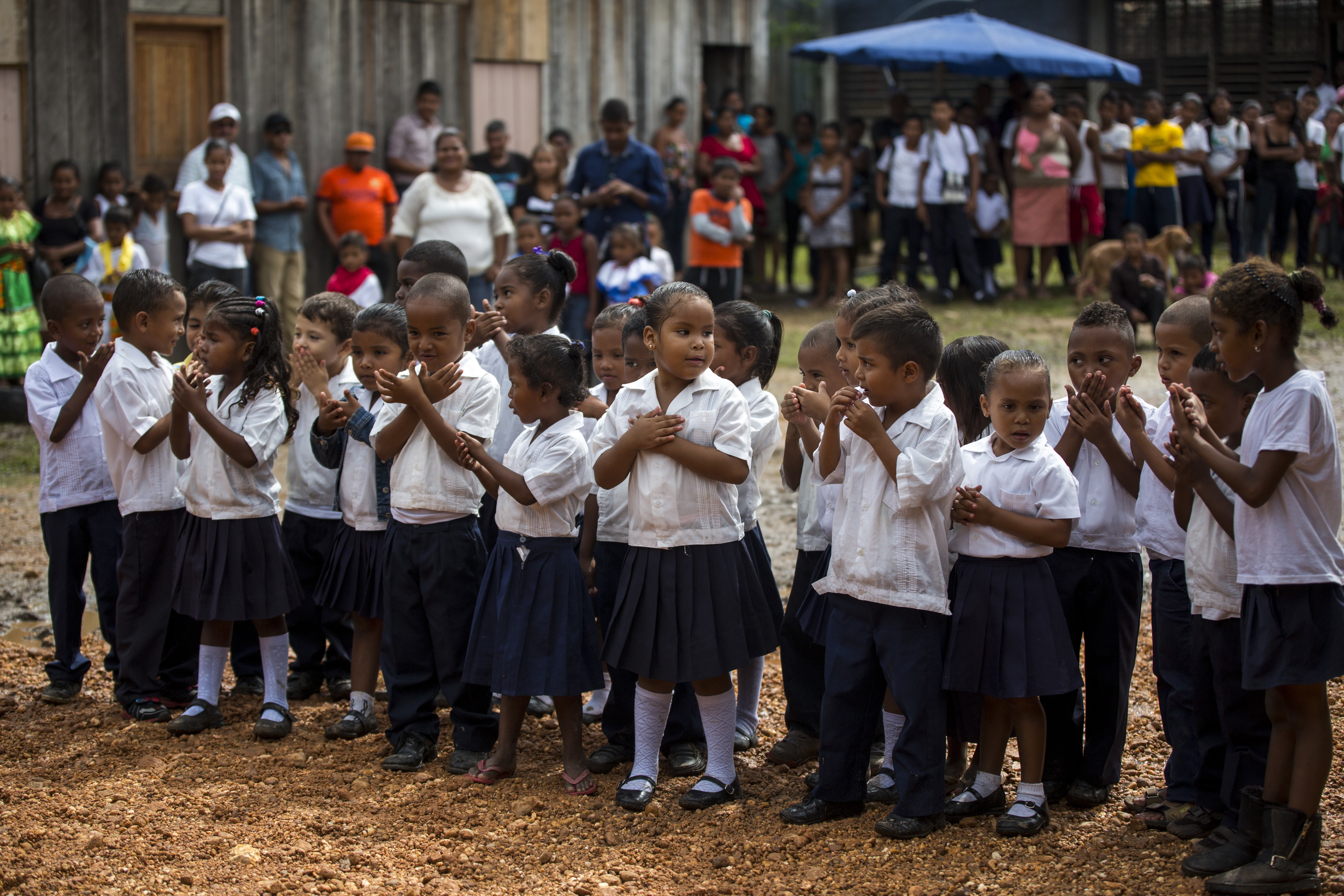 Children from Victor Hugo Echeverria primary school blow kisses and thank the U.S Marines from Special Purpose Marine Air-Ground Task Force – Southern Command for all their work in constructing their school during the opening ceremony for Victor Hugo Echeverria at Puerto Lempira, Honduras, Oct. 16, 2015. Marines with the SPMAGTF-SC built three schools in approximately three months in Puerto Lempira improving the learning environment for hundreds of local children. SPMAGTF-SC is a temporary deployment of Marines and sailors throughout Honduras, El Salvador, Guatemala, and Belize with a focus on building and maintaining partnership capacity with each country through shared values, challenges and responsibility. (U.S. Marine Corps photo by Sgt. Andy J. Orozco/Released) Unit: U.S. Marine Corps Forces, South